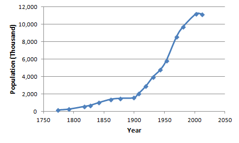 Scatter plot of the population of Cuba, from the first census in 1774 to the most recent of 2012